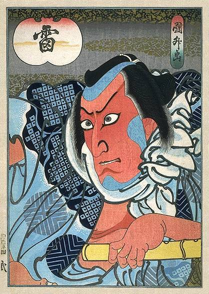 = Summary == Description